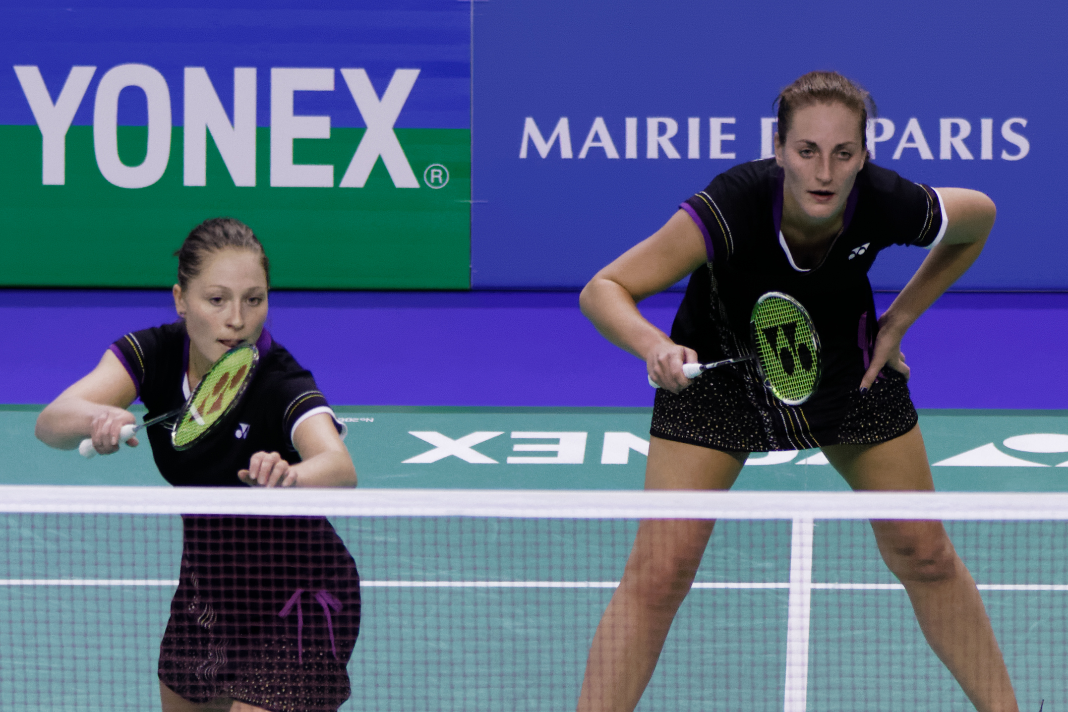 2013 French open. Women's doubles eightfinal. Line Damkjær Kruse and Marie Røpke vs Jang Ye-na and Kim So-young.